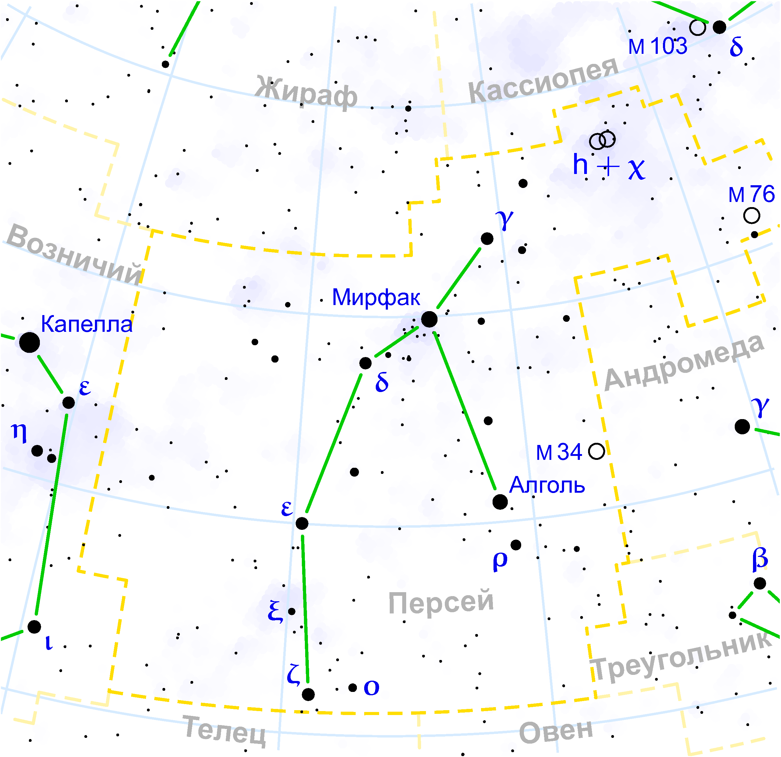 Perseus constellation map in Russian